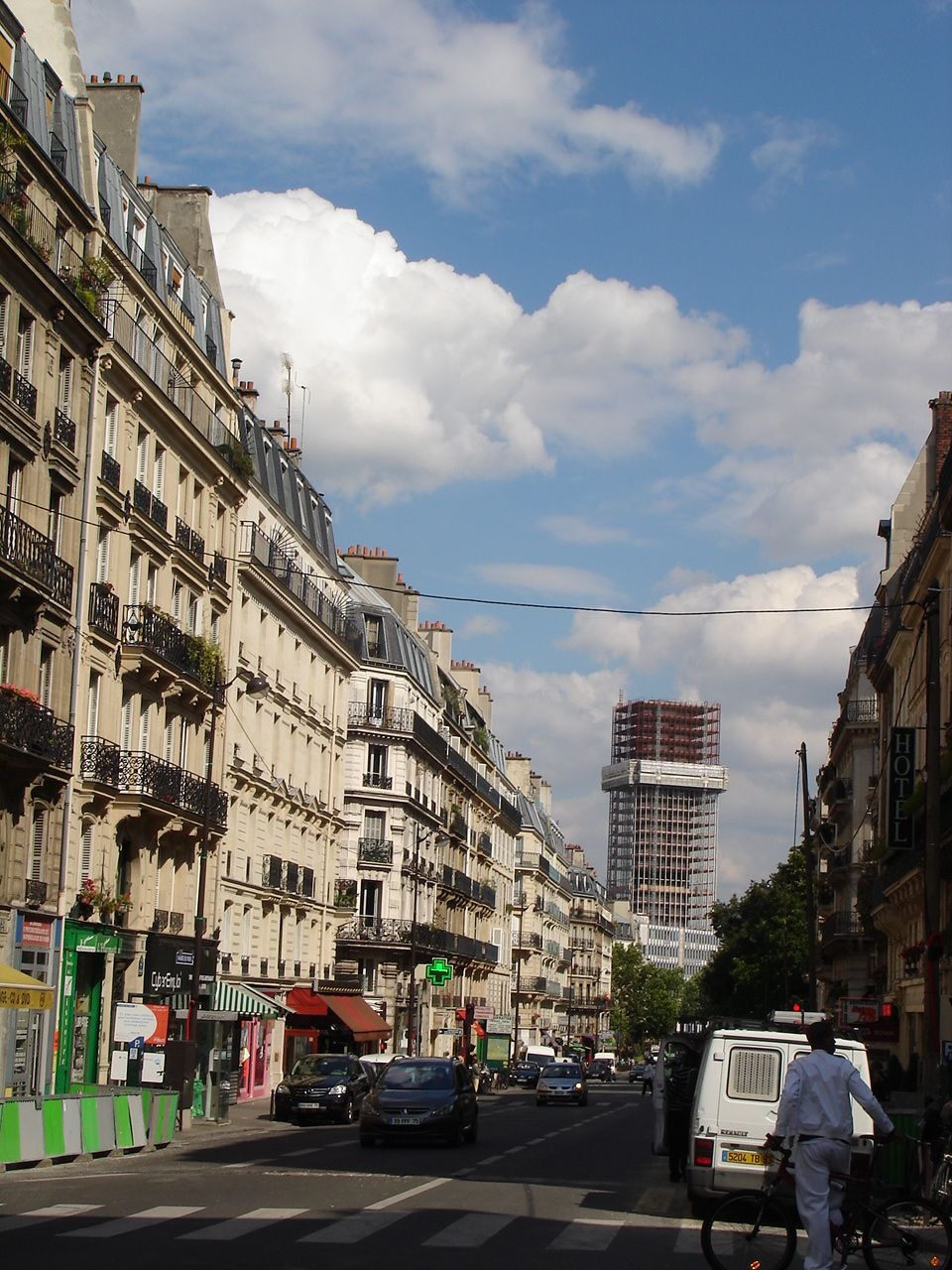 Rue des Écoles with view on University of Paris (Faculté des Sciences de Jussieu), presently (2007) under heavy renovation due to the presence of asbestos.